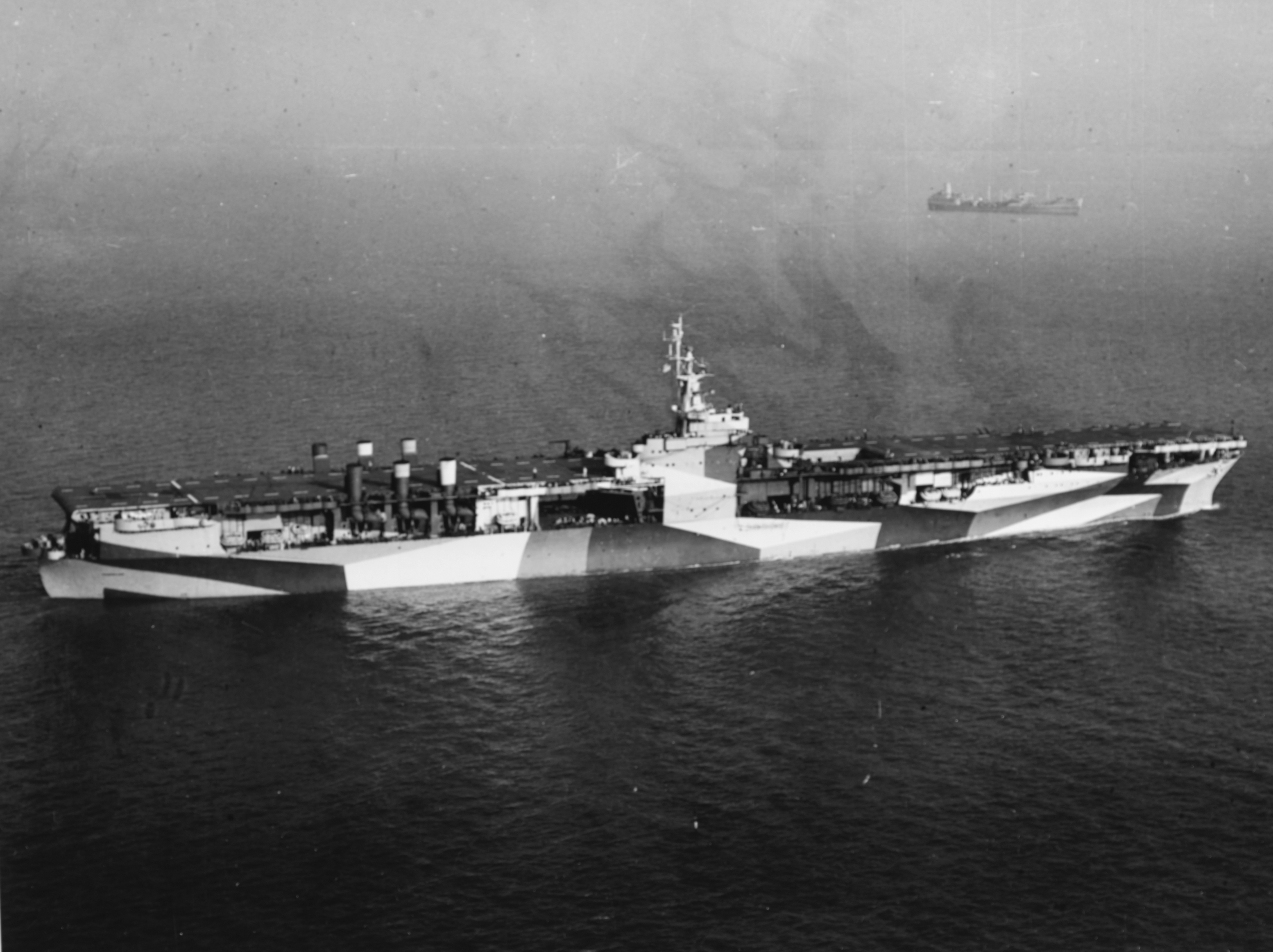 The U.S. Navy aircraft carrier USS Ranger (CV-4) photographed from an aircraft from Naval Air Station Hampton Roads, Virginia (USA), on 6 July 1944. Note her camouflage paint scheme Measure 33 Design 1A. This was the only camouflage measure which used four different colours.